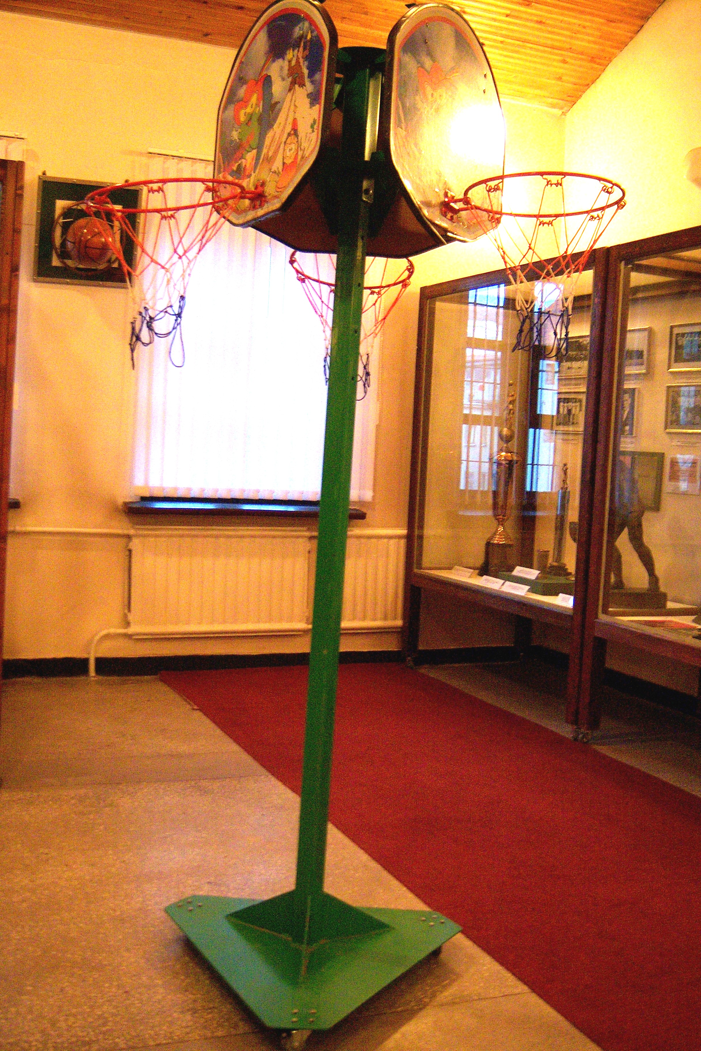 Sports Museum, sports equipment for Piterbasket, Kaunas, Lithuania